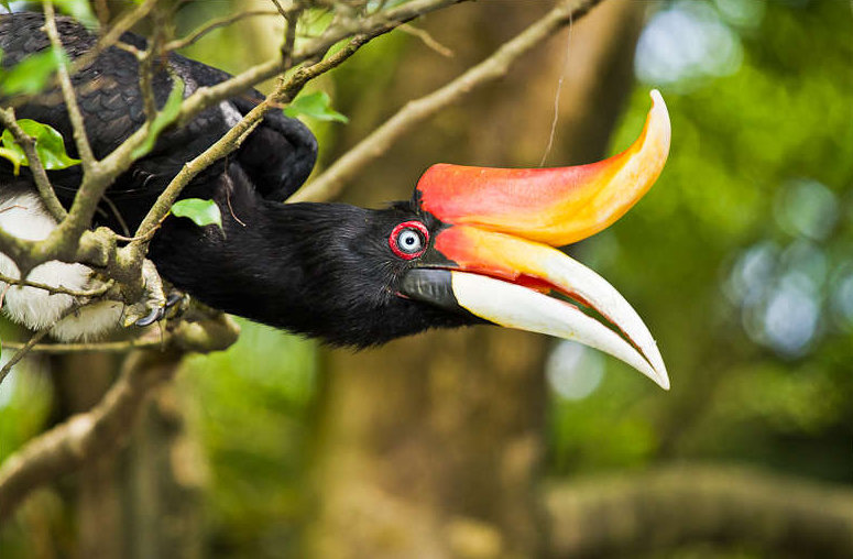 A Rhinoceros Hornbill at Kuala Lumpur Bird Park, Malaysia.